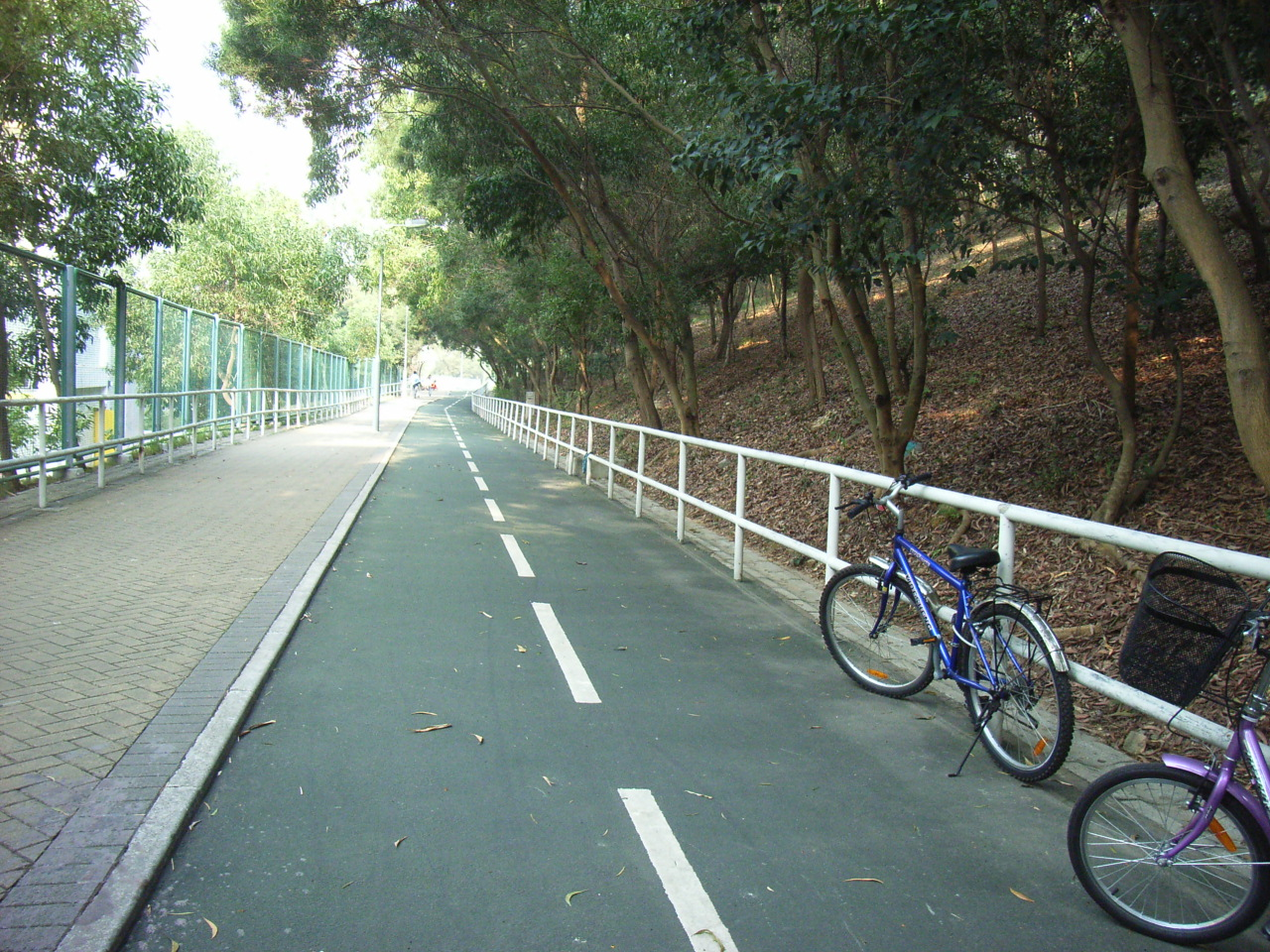 Photographic and author: User:TUNGTUNG360